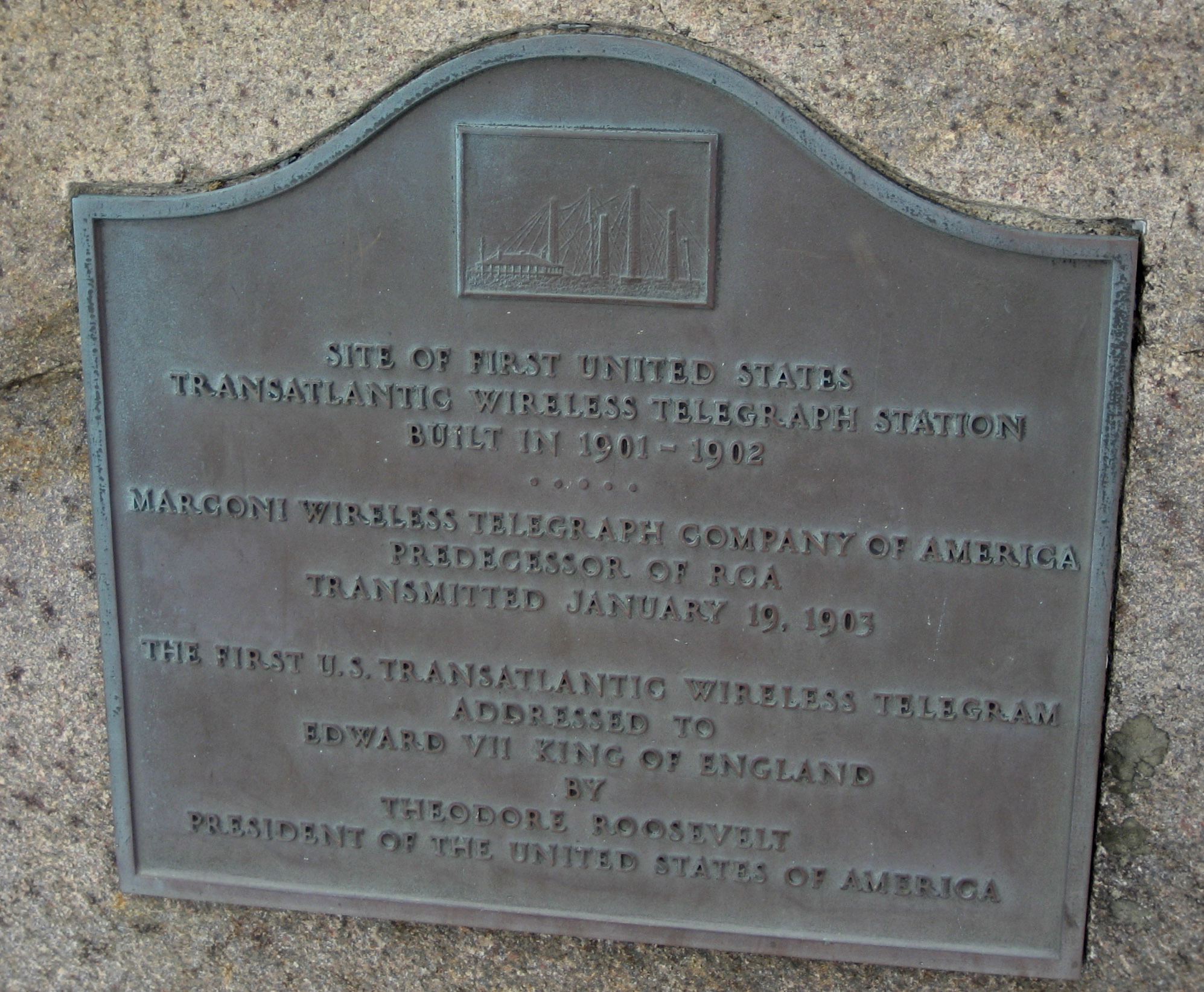 Site of the first US Transatlantic Wireless Telegraph Station, Marconi Station, Cape Cod, Massachusetts